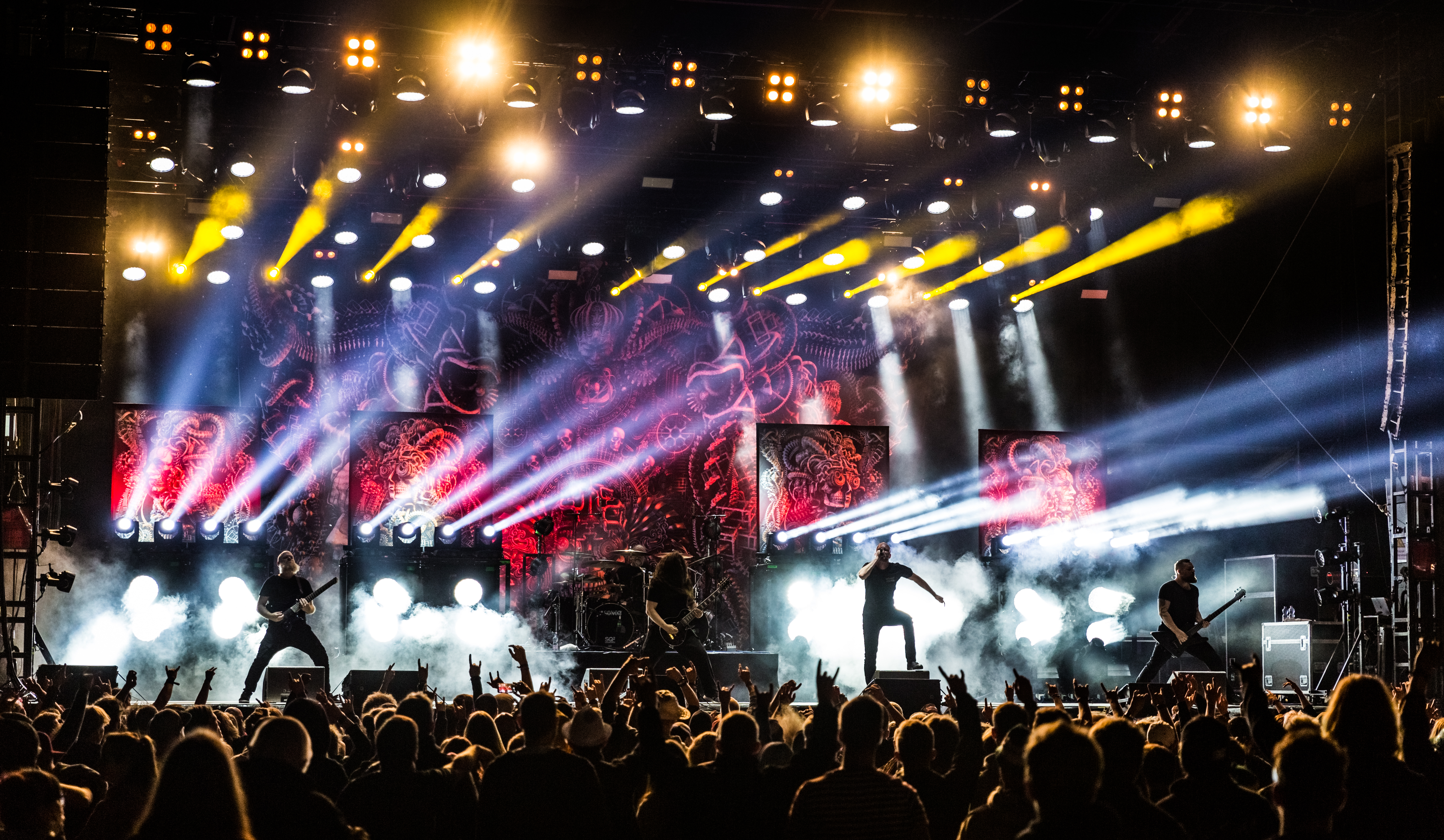 Meshuggah - Rock am Ring 2018